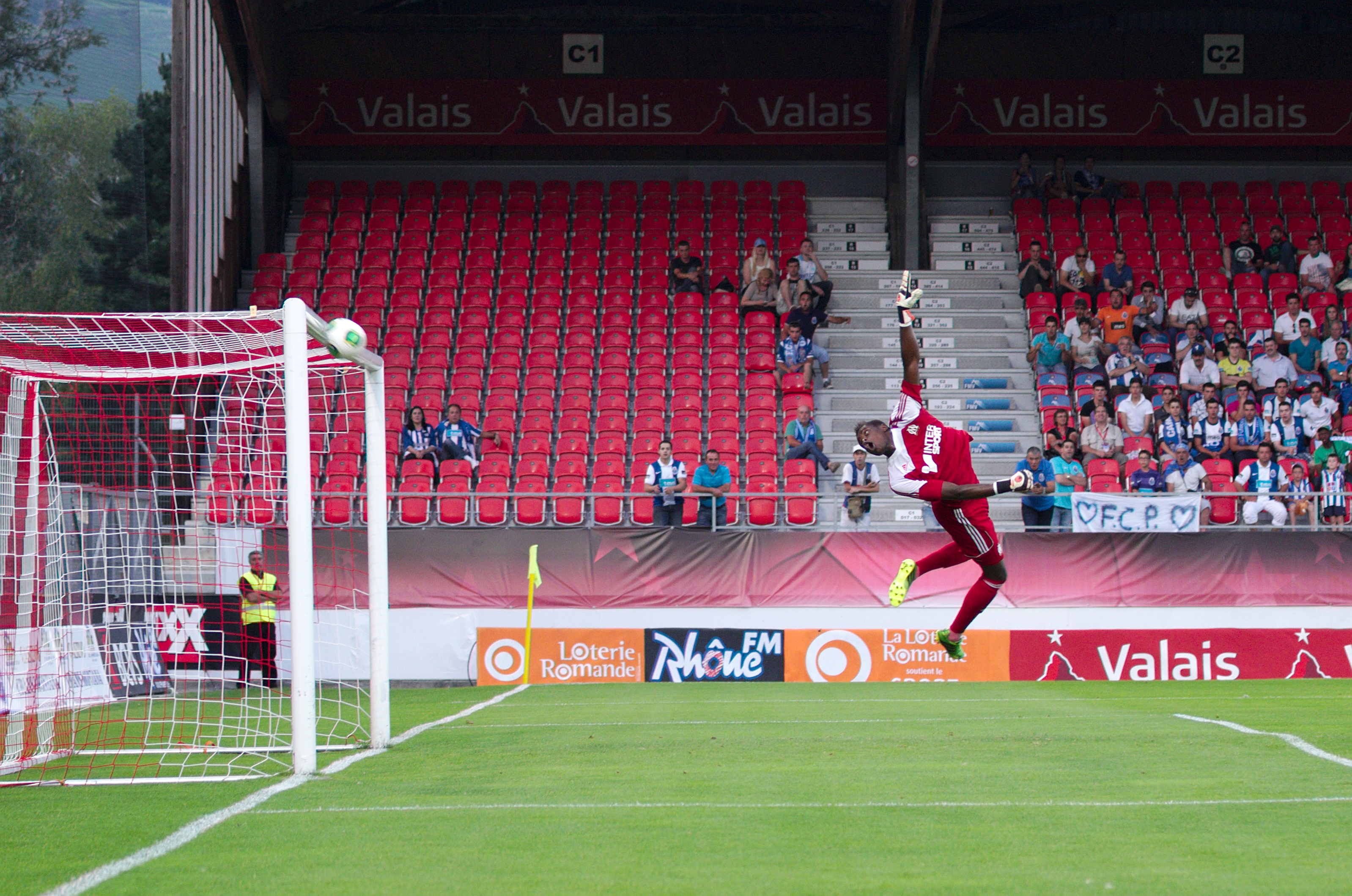 Goalie Brice Samba and an incoming ball at the 2013 Valais Cup